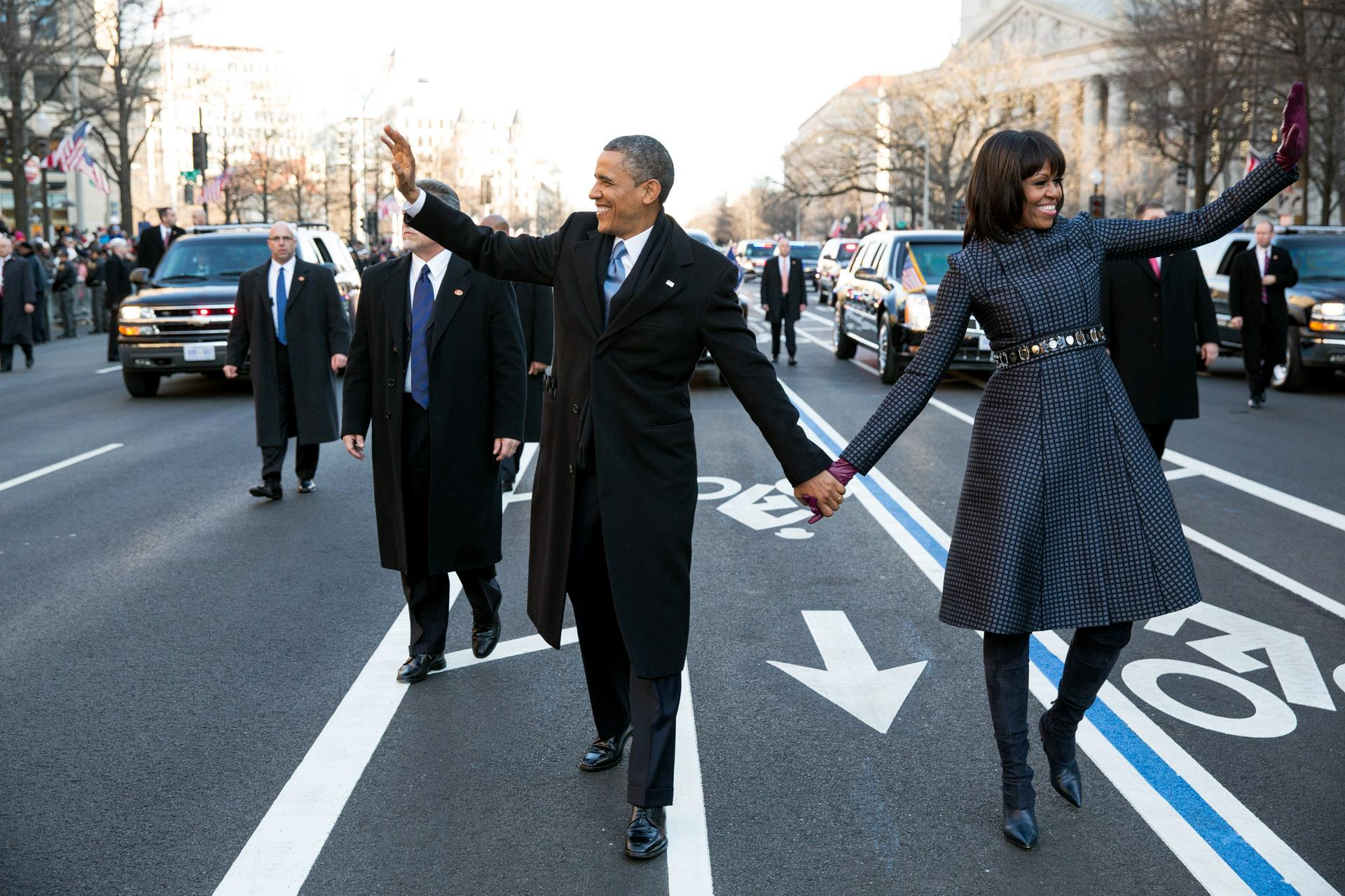 President Barack Obama and Michelle Obama walk in the inaugural parade on Pennsylvania Avenue on January 21, 2013.